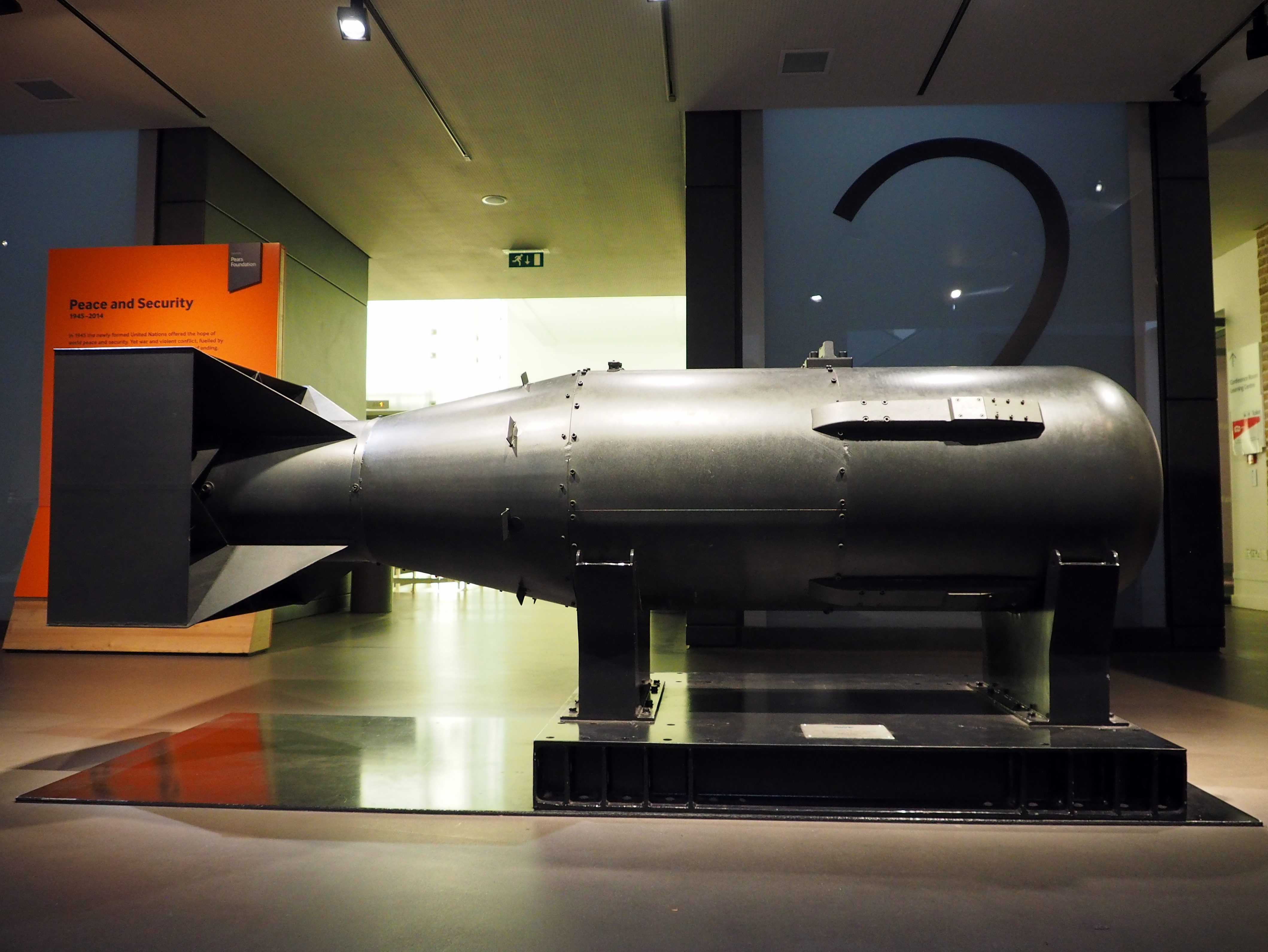 A spare casing for the "Little Boy" atomic bomb which was dropped on the Japanese city of Hiroshima on display in the Imperial War Museum's Cold War gallery in November 2015